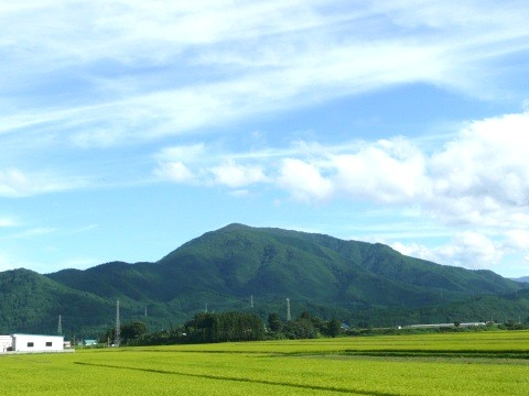 Mount Hachimori seen from the NW, in Kazuno, Akita Prefecture, Japan.